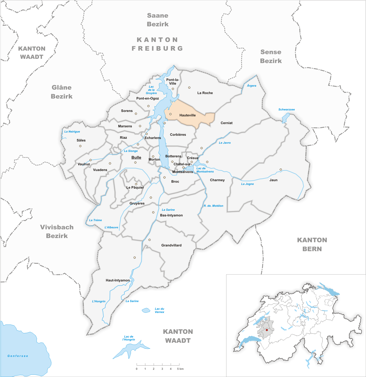 Municipality Hauteville